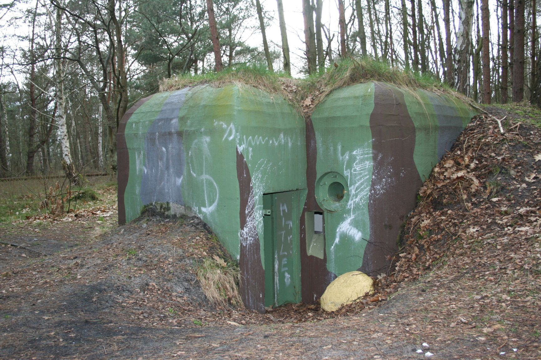 Schron Jastarnia [1]